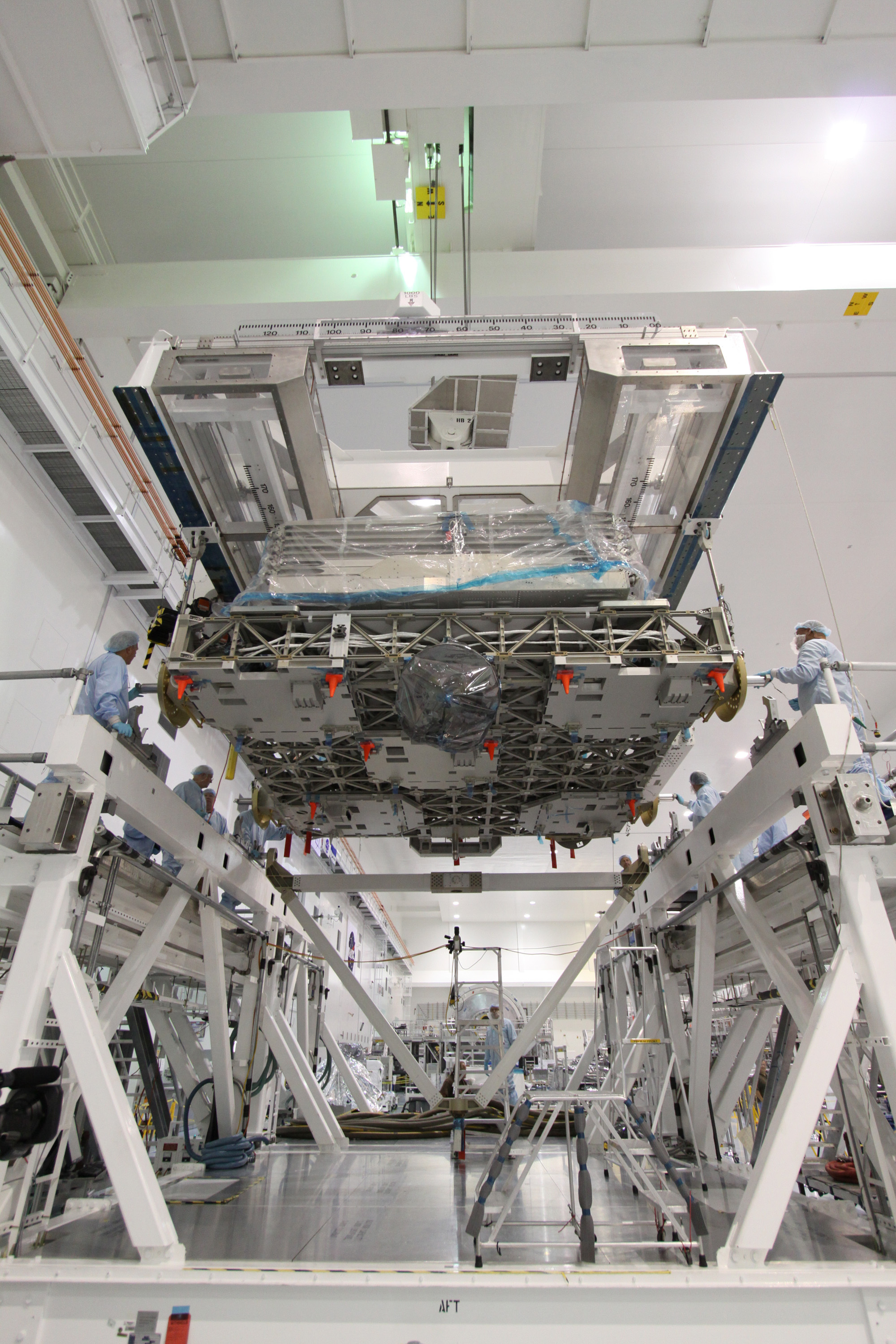 In the Space Station Processing Facility at NASA's Kennedy Space Center in Florida, technicians perform the Express Logistics Carrier-4, or ELC-4, deck-to-keel mate. The deck is about 14 by 16 feet and spans the width of a space shuttle’s payload bay. It is capable of providing astronauts aboard the International Space Station with a platform and infrastructure to deploy experiments in the vacuum of space without requiring a separate dedicated Earth-orbiting satellite.